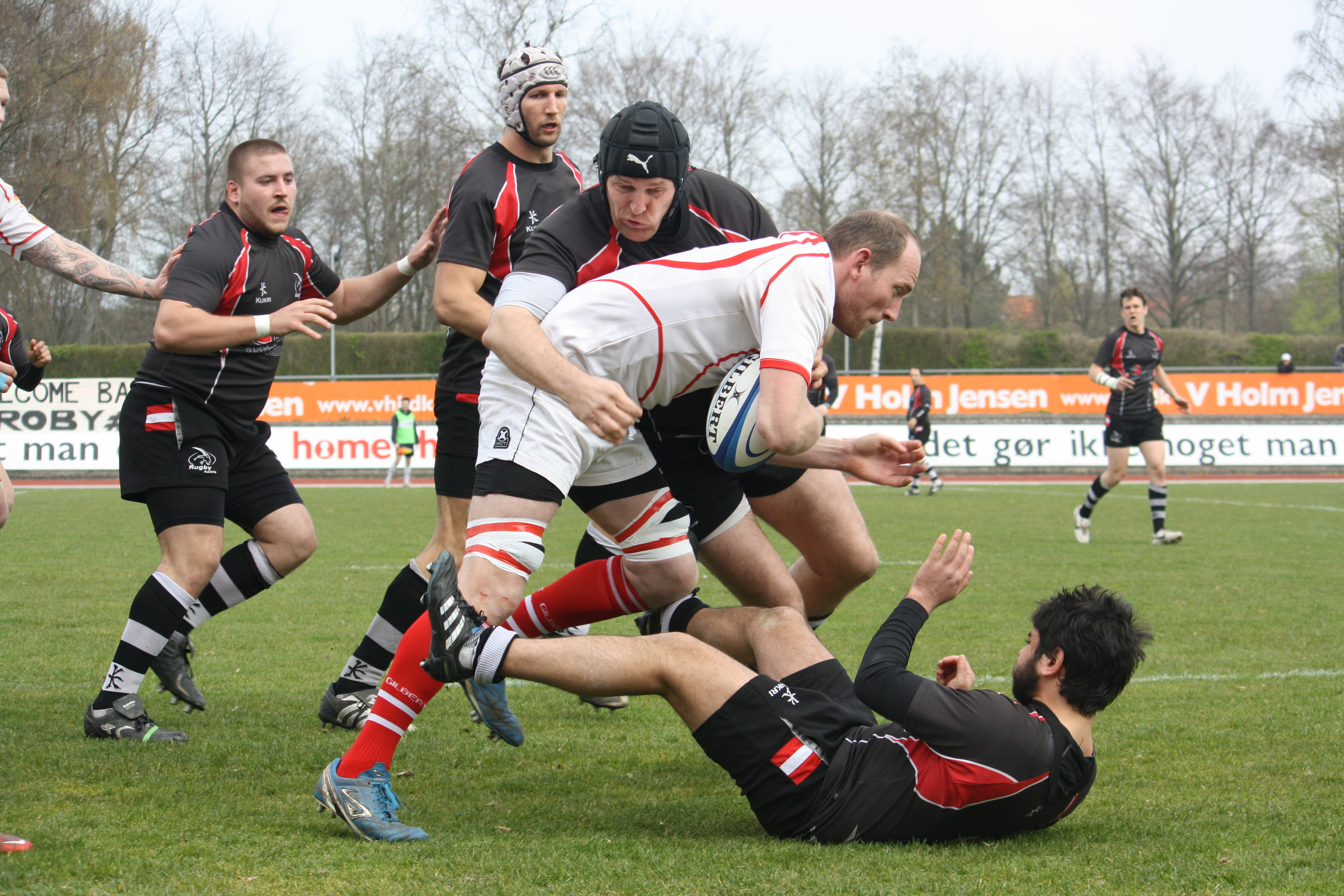 European Nations Cup, Group 2C, Rugby Denmark vs. Austria